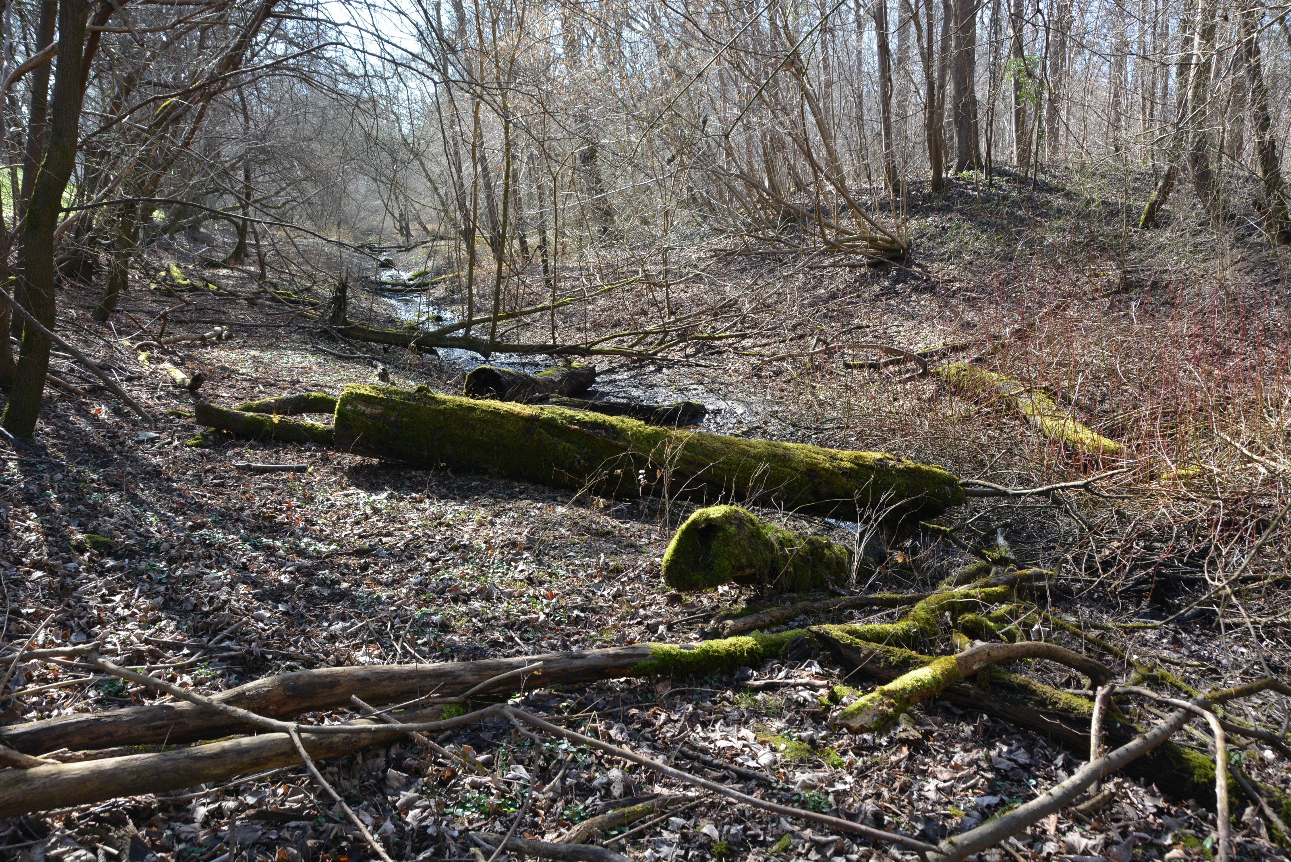 Forest park, Mannheim, Germany, small Rhine arm "Schlauch" ("tube") in winter time, mostly dry (will be filled with water at high Rhine water level)